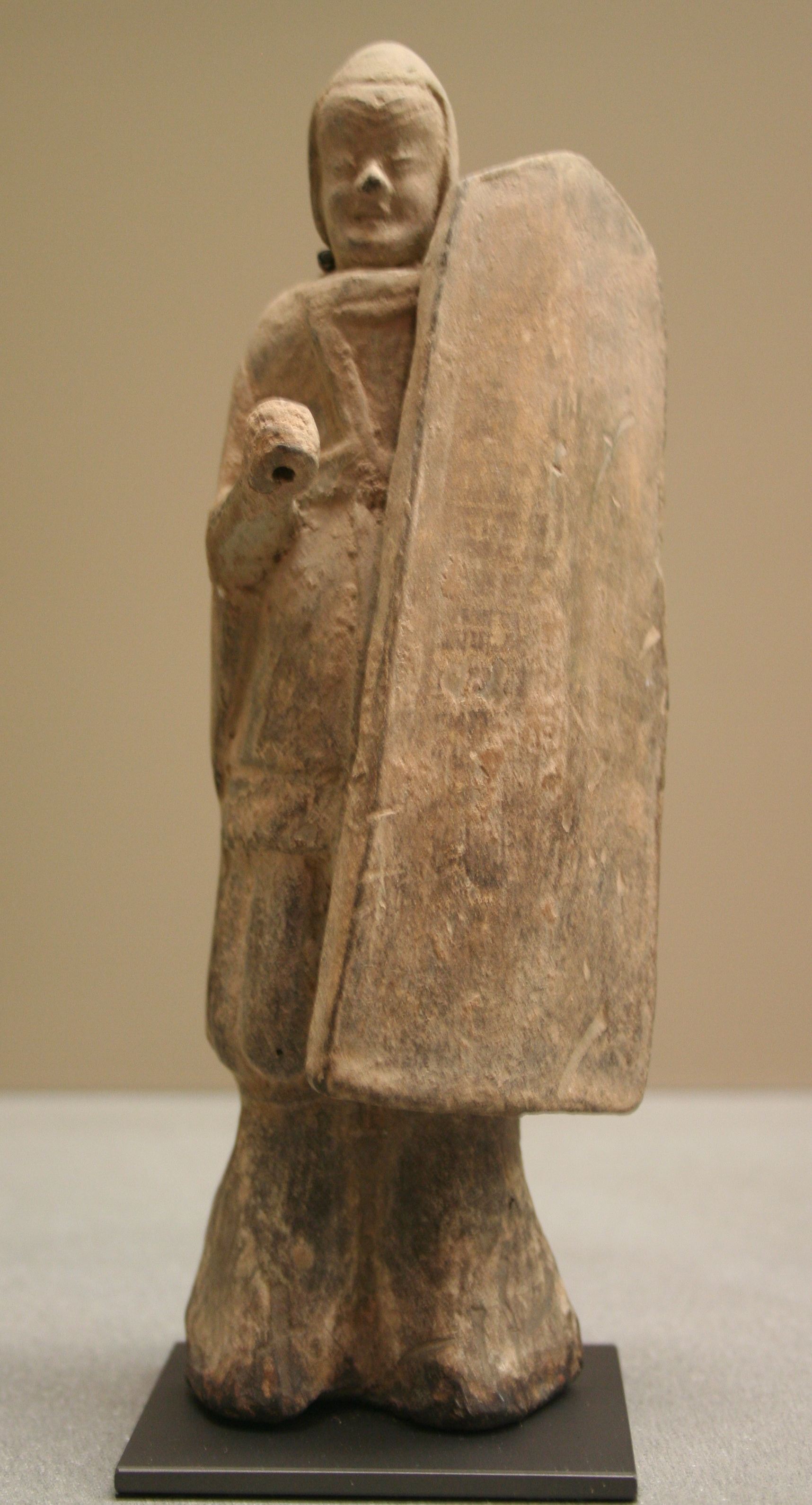 Cernuschi Museum, Paris, France.